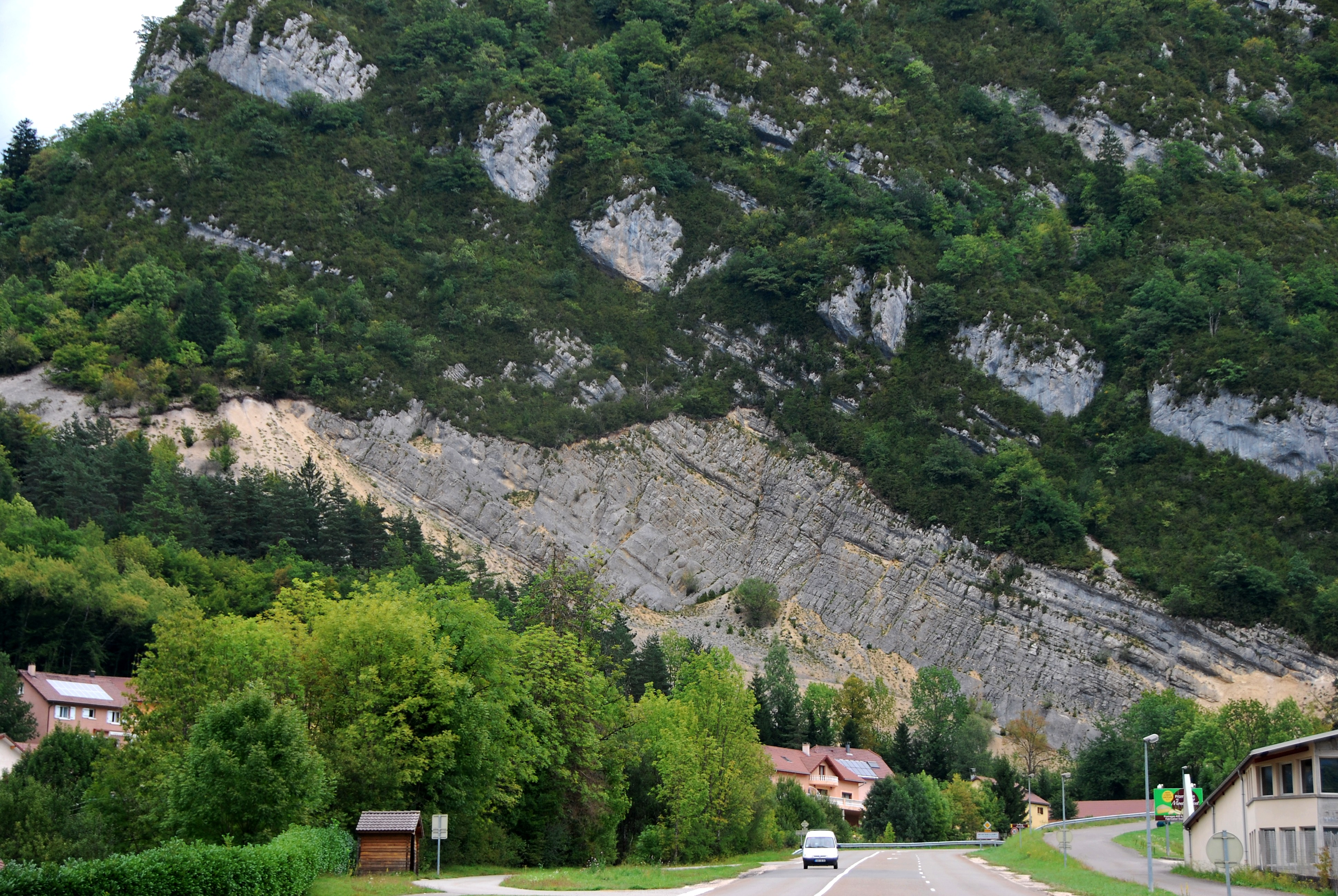 Fold in the Jura Mountains, at Le Verger